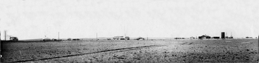 Creator: Unknown Date: ca. 1914-1915 Place: Muleshoe, Bailey County, Texas Description: Photograph of the early settlements in Muleshoe, Texas. Physical Description: 1 photographic print: gelatin silver; 6 x 25 cm on 12.5 x 27.5 cm mount File: ag1993_0881_muleshoe_001_opt.jpg Rights: Please cite DeGolyer Library, Southern Methodist University as the source of this file. A high-resolution version of this file may be obtained for a fee. For details see the web page. For other information, . Digital Collection: Texas: Photographs, Manuscripts, and Imprints For more information, see